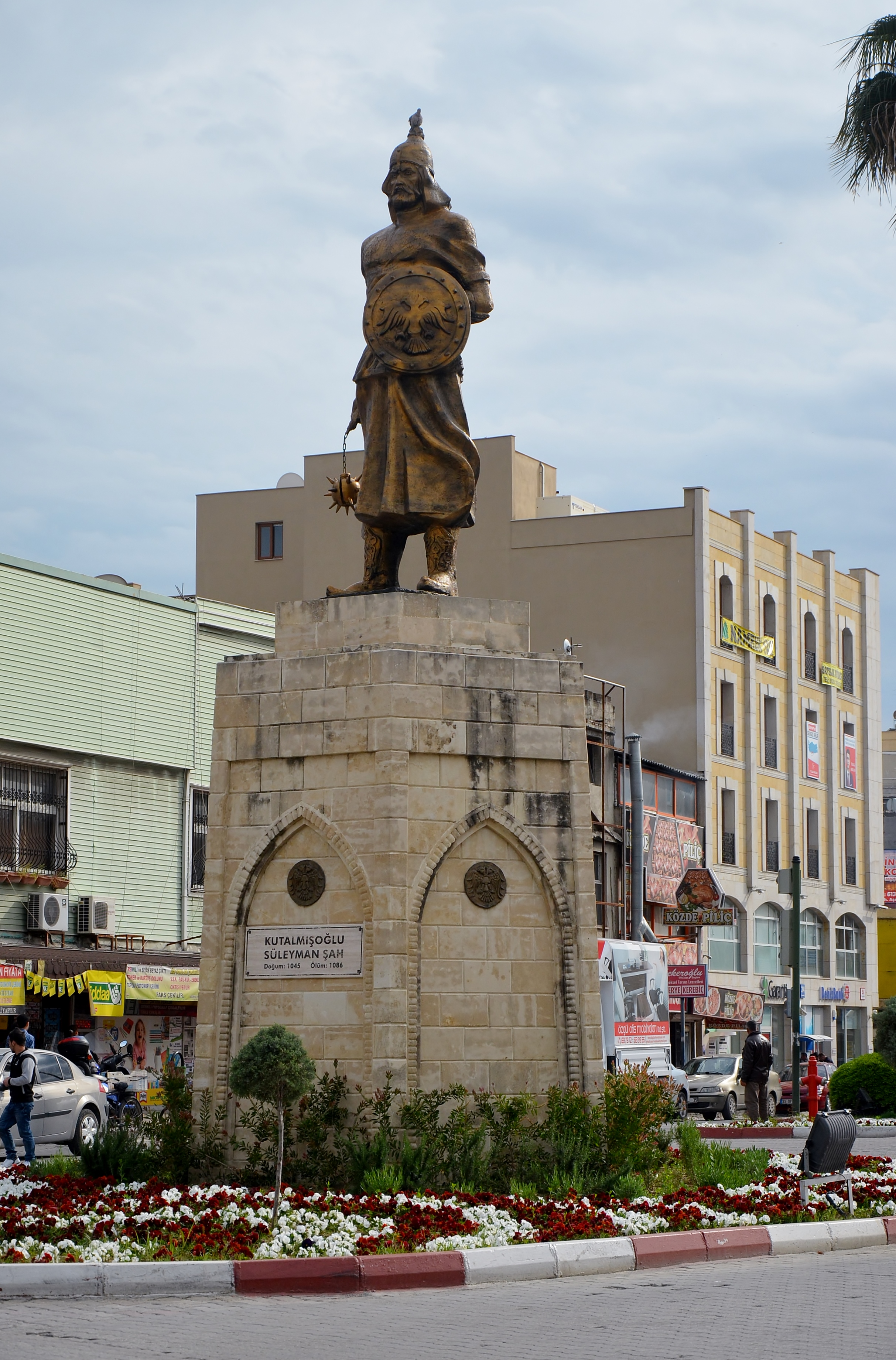 Kutalmişoğlu Süleyman Şah Monument in Tarsus , Mersin